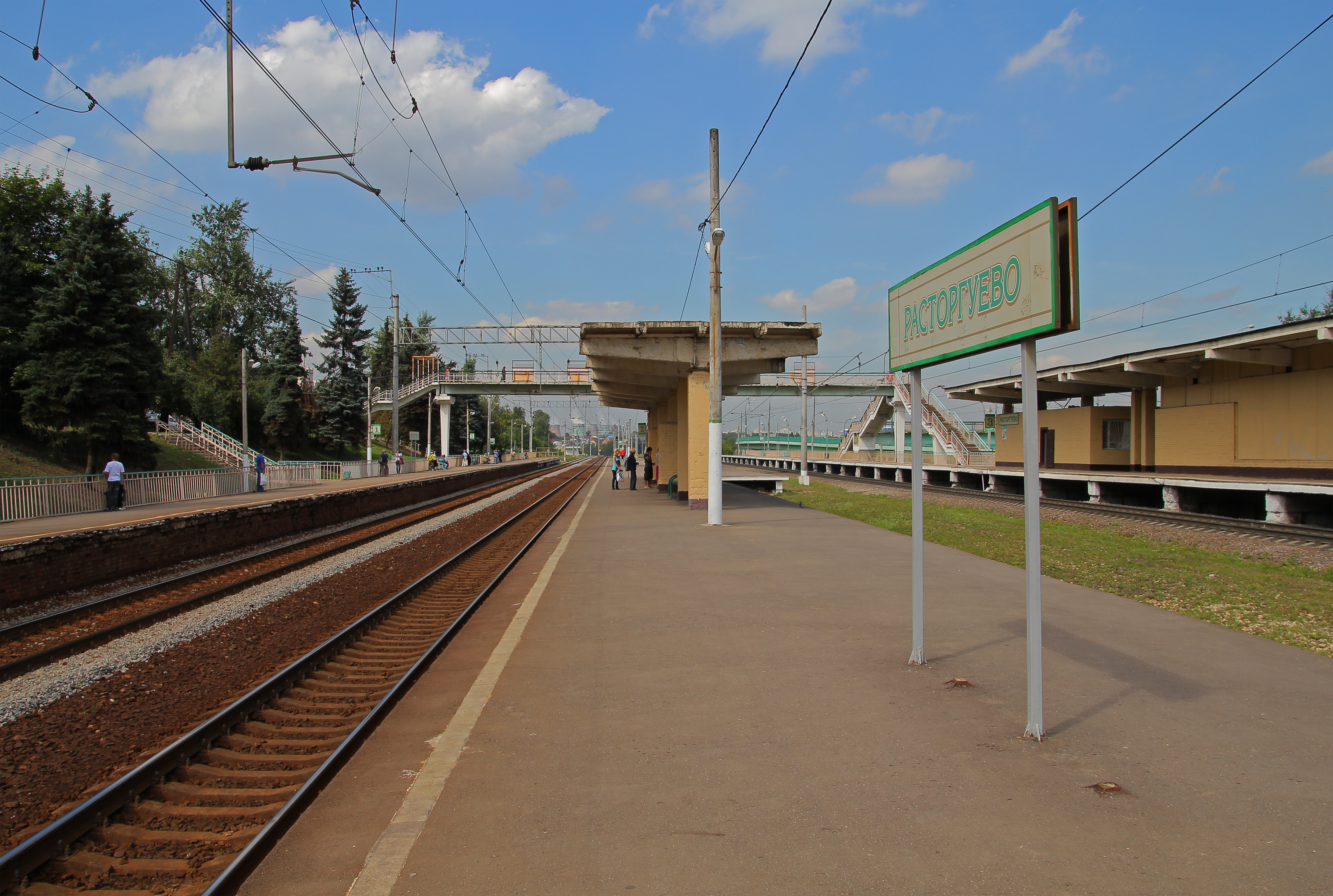 Rastorguevo rail platform in Vidnoye, Moscow Oblast, Russia